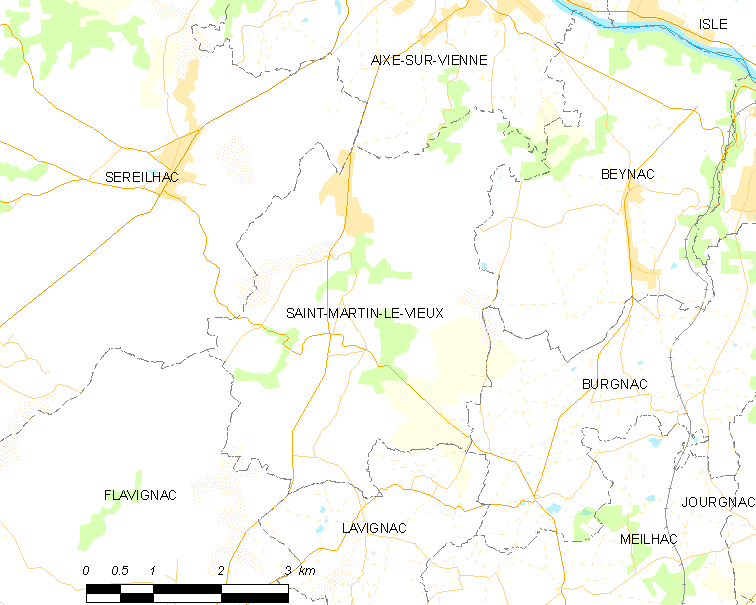 Map of French municipality Saint-Martin-le-Vieux